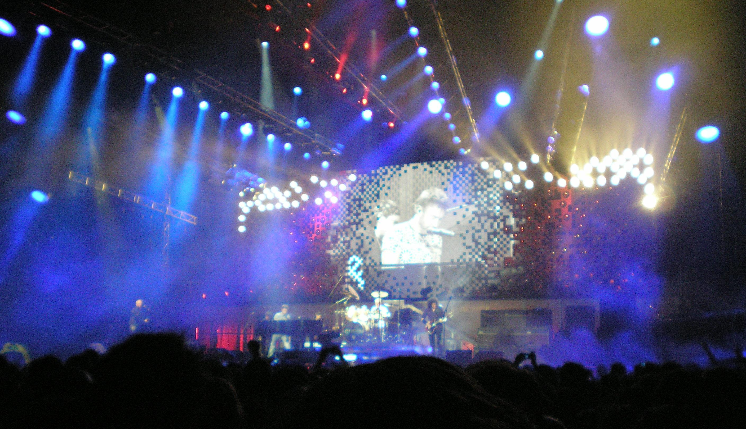 Queen + Paul Rodgers in Madrid.